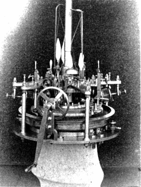 Circular knitting machine by Fouquet & Frauz, Rottenburg/Neckar, um 1875